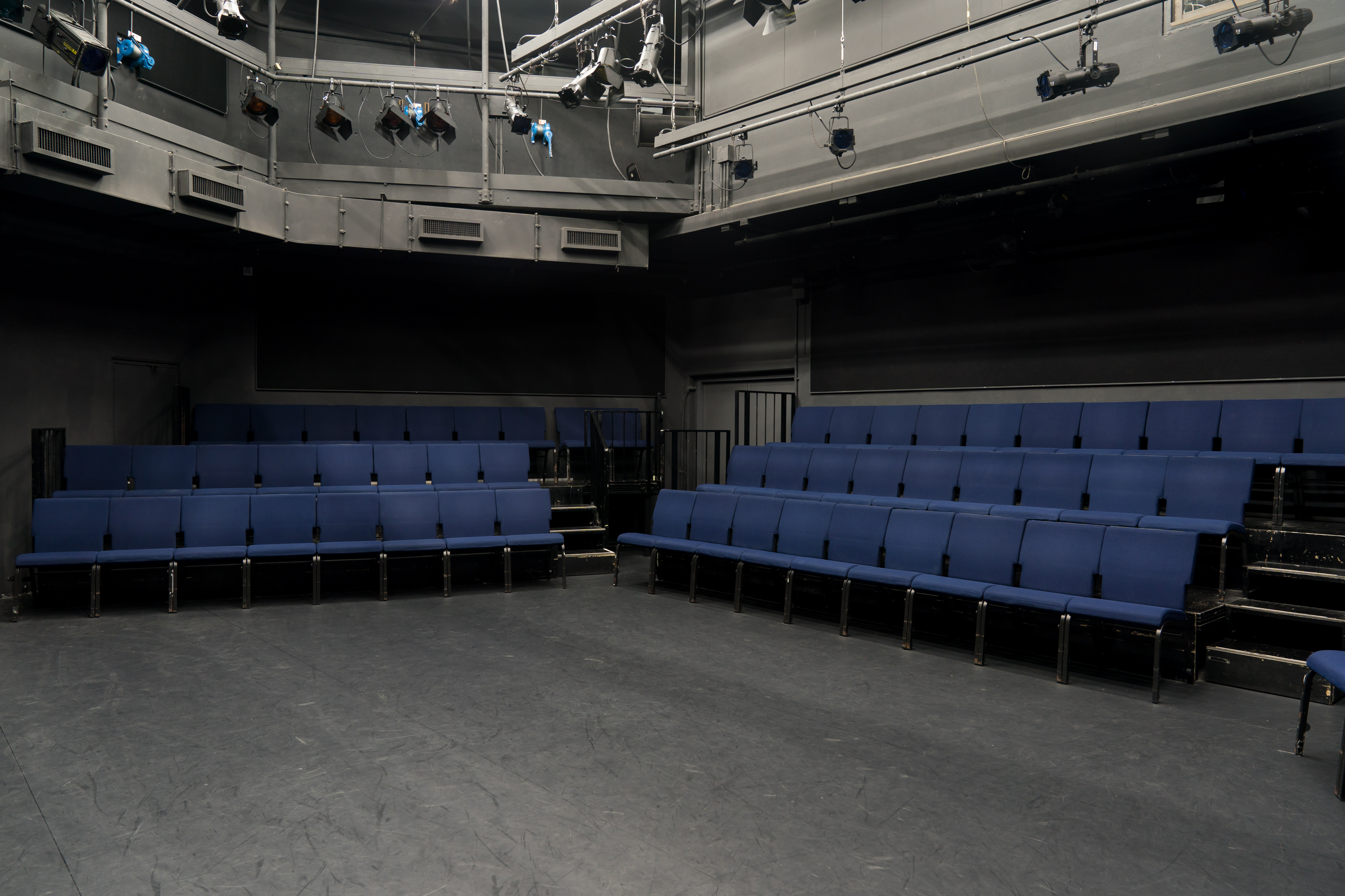 HKAC